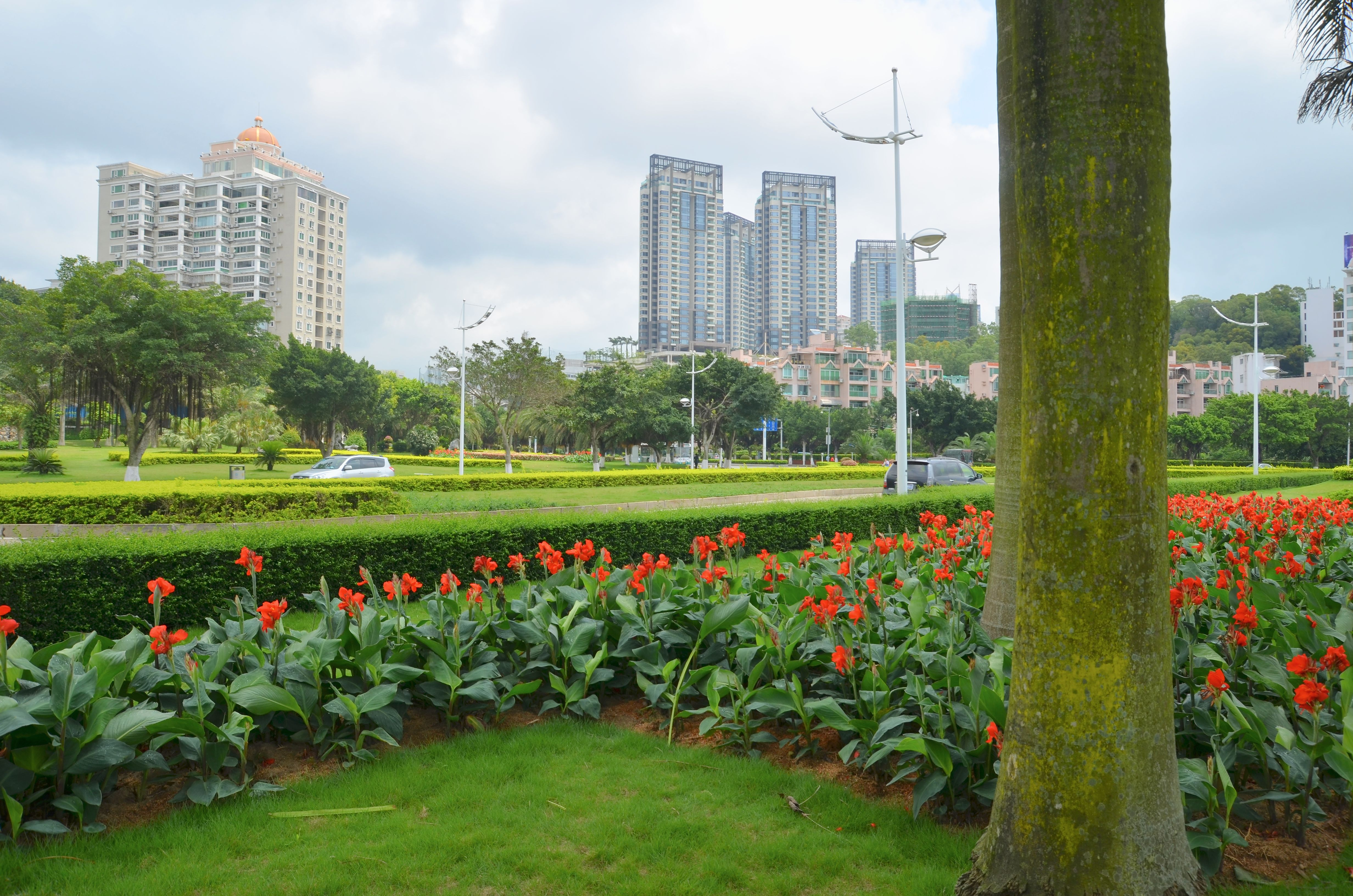 People Republic of China, Guangdong province, Zhuhai, green space at the Qinglu South Road (ahead) and Shuiwan Road (from left to right) crossroads.